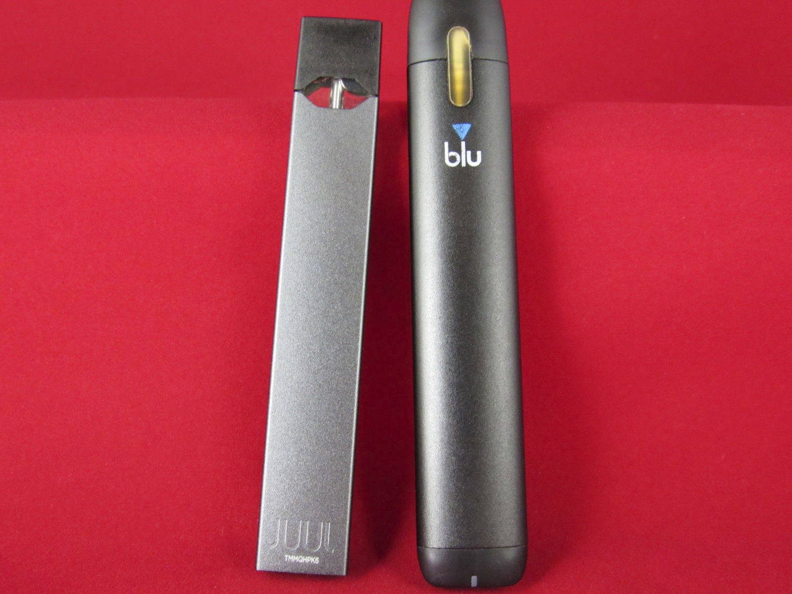 Juul (left) and Blu (right) electronic cigarettes.